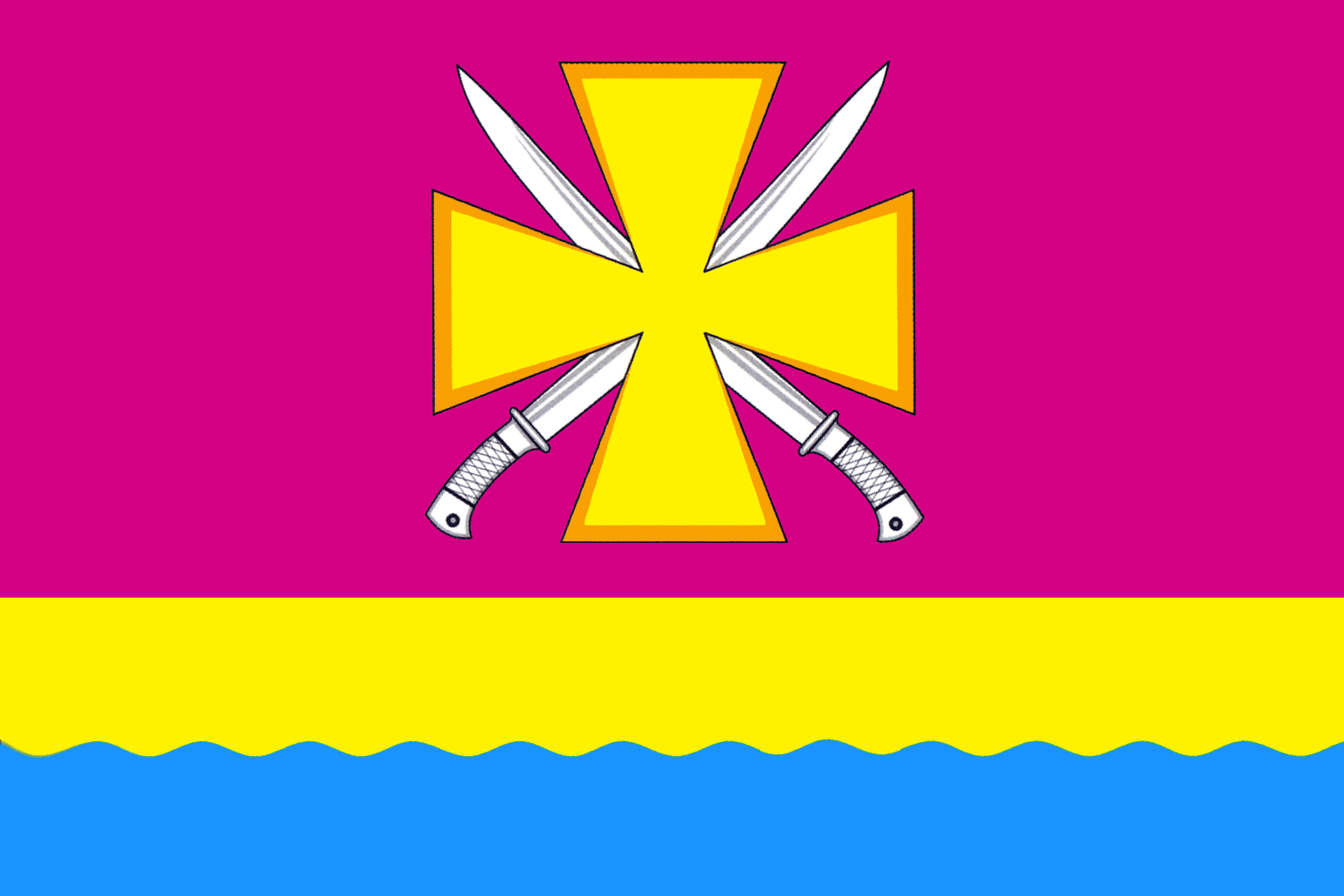 Dinskoy rayon (Krasnodar krai), flag